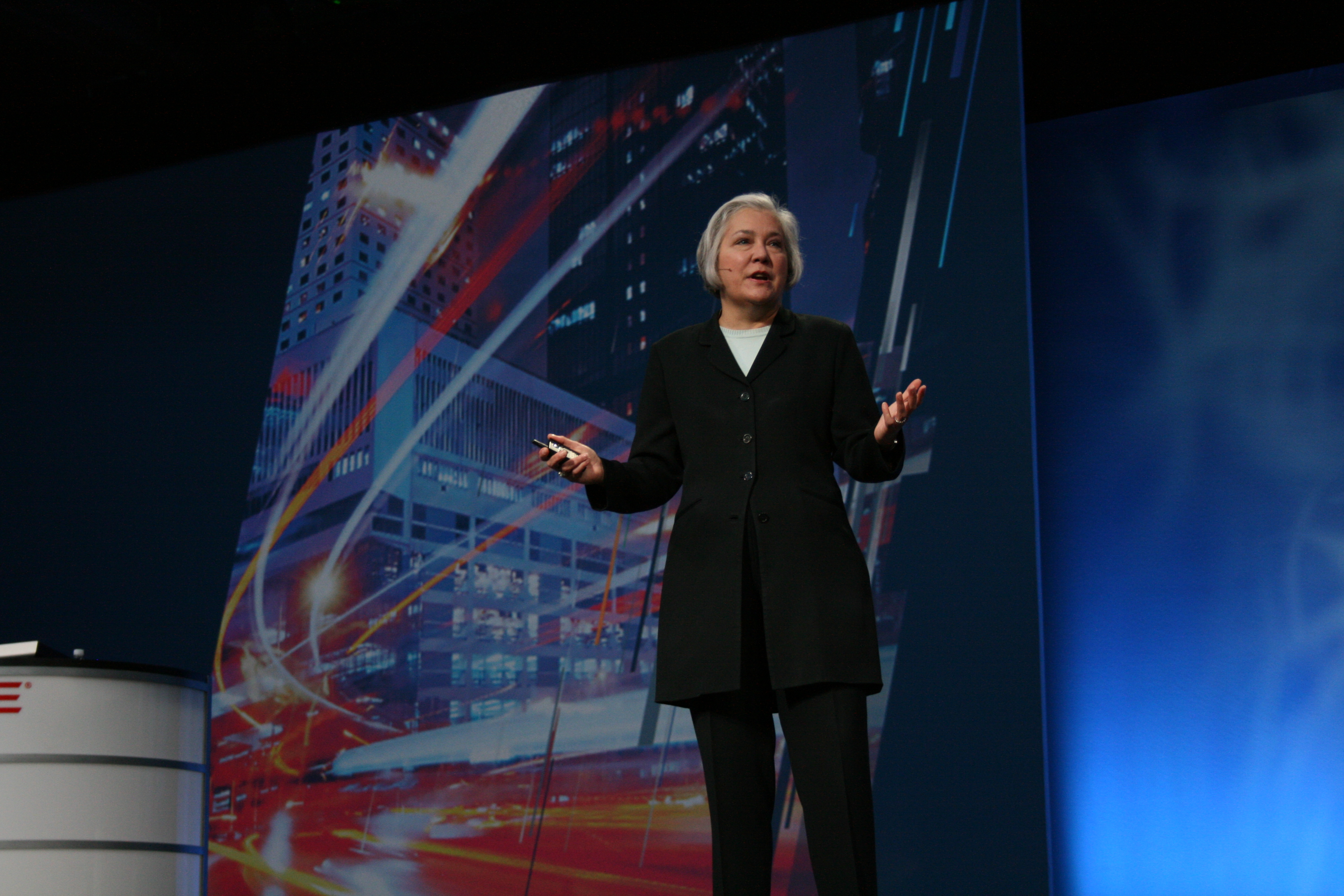 American businesswoman Ann Livermore, executive vice president and director of Hewlett-Packard, speaking at Oracle OpenWorld 2010.